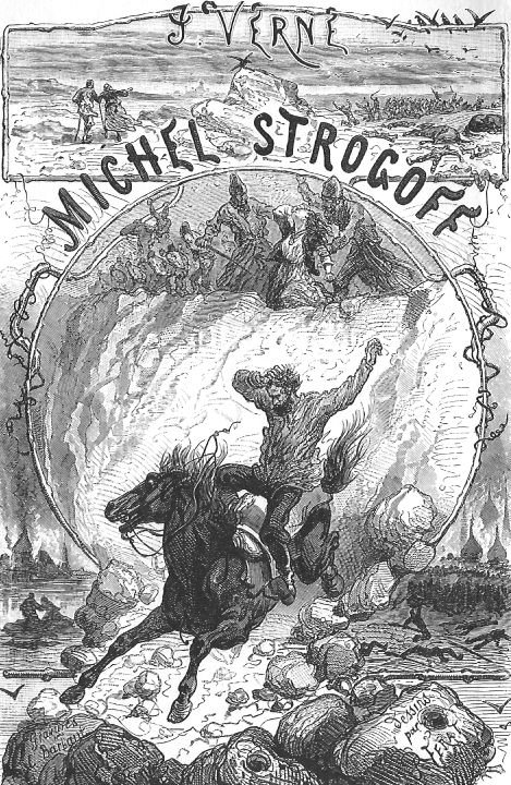 An illustration from the novel "Michael Strogoff: The Courier of the Czar" by Jules Verne drawn by Jules Férat.